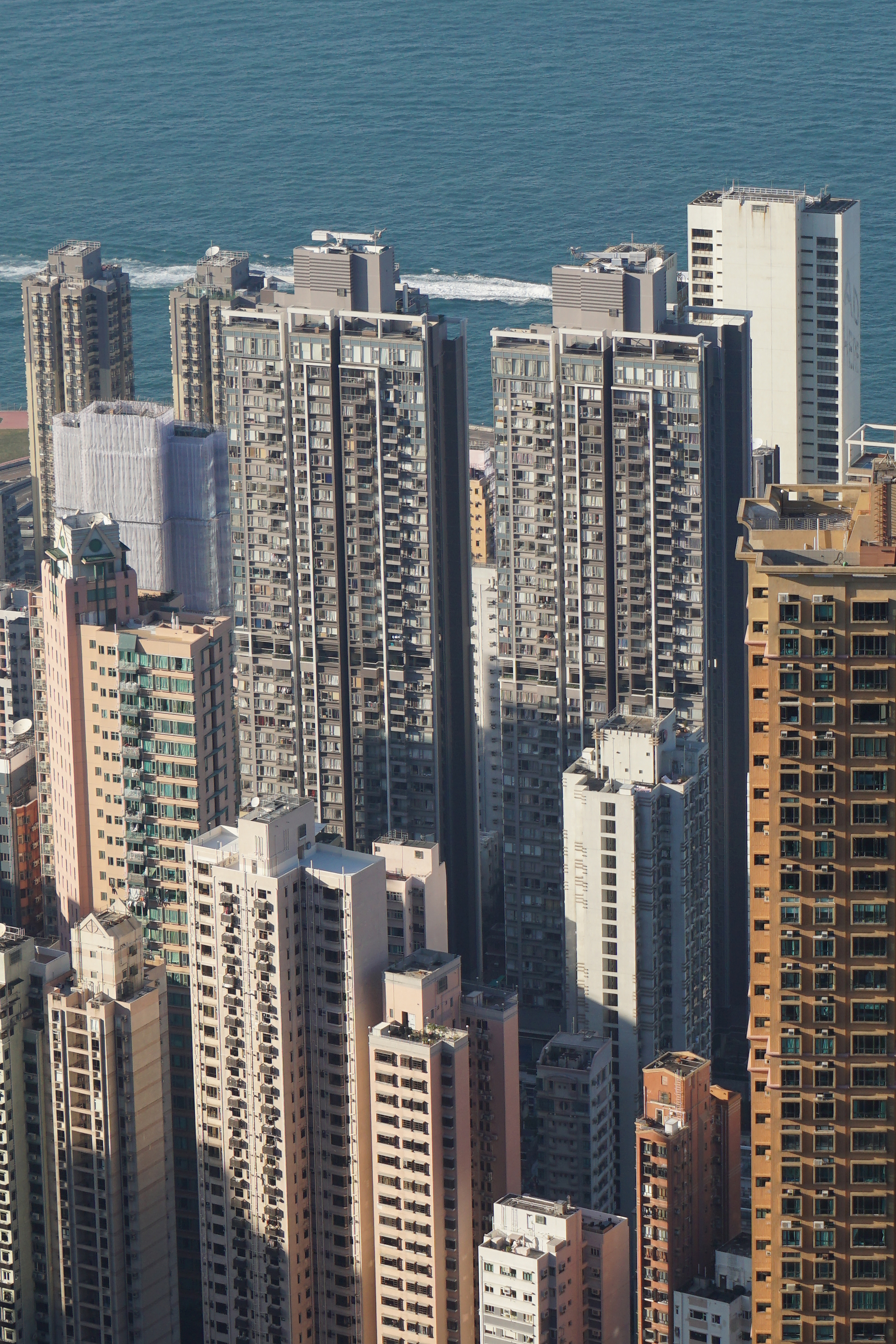 Island Crest in Sai Ying Pun, Hong Kong.